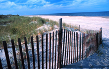 Delaware Seashore State Park draws millions of visitors per year who come to enjoy water-related activities, including boating, swimming, fishing and surfing.